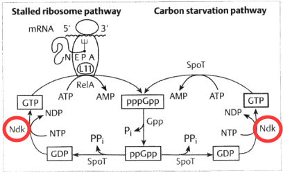 Image of NDPK activity in the ppGpp cycle